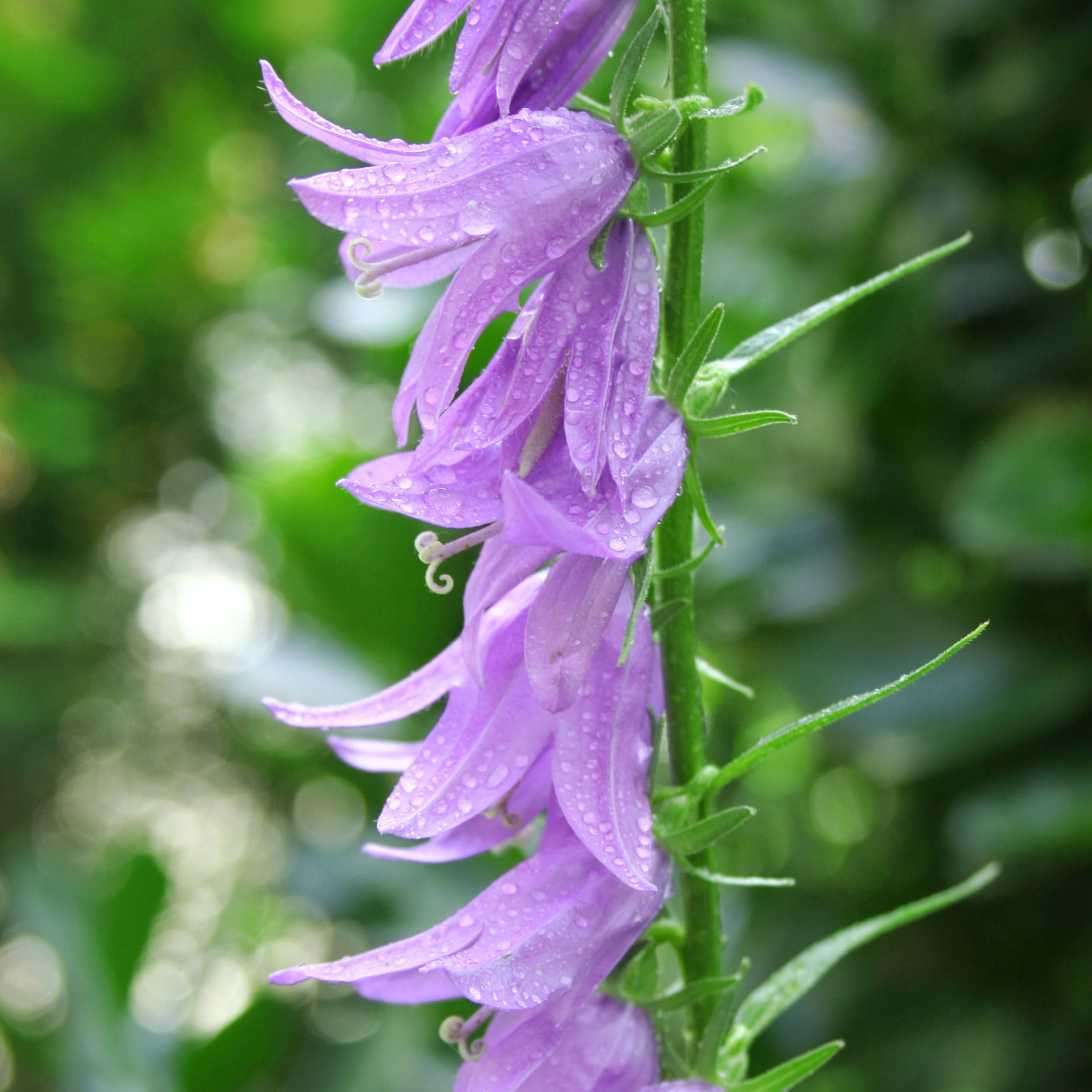 Campanula latifolia in forest